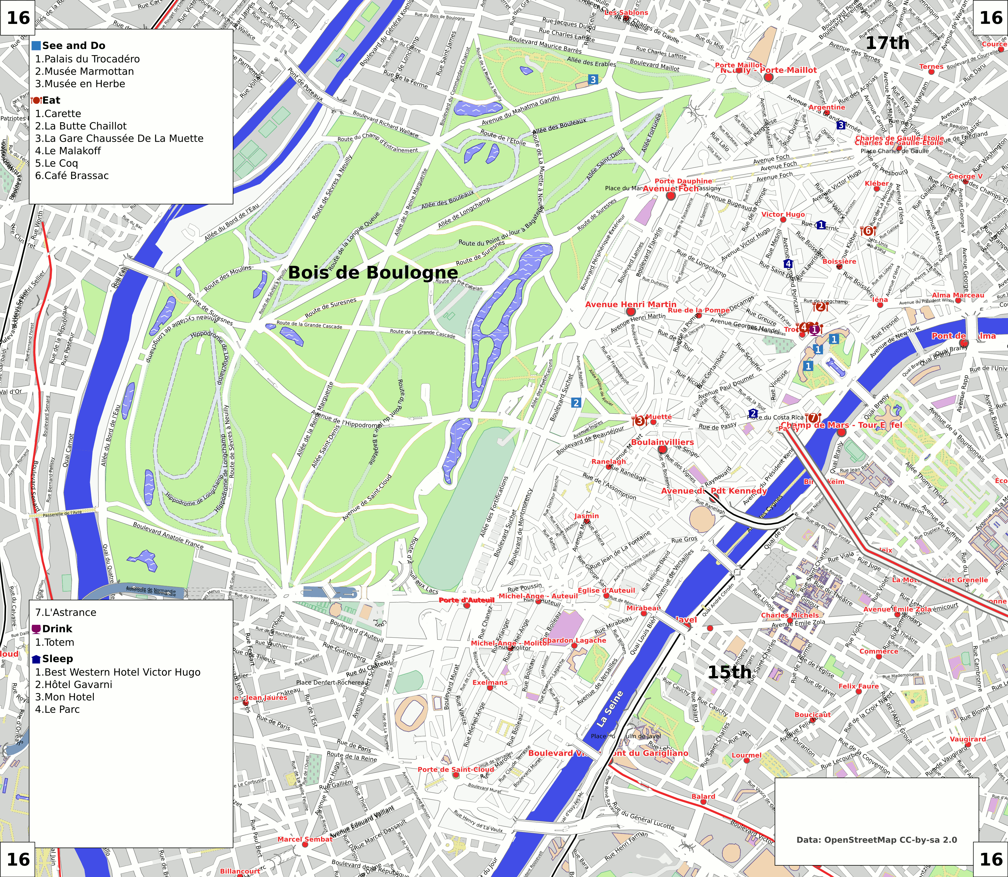 Paris 16th arrondissement map with listings.